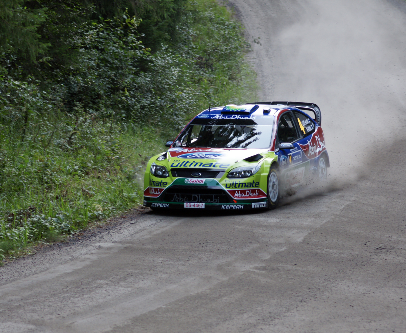 Jari-Matti Latvala, winner of the Neste Oil Rally Finland 2010, driving his Ford Focus RS WRC 09 at Rannakylä shakedown in Muurame.